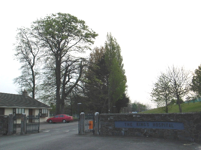 The King's Hospital Entrance gate to the King's Hospital - a co-educational, fee-paying boarding and day school. It was founded in 1669 it is one of the oldest schools in Ireland. It was previously located in Dublin city centre (Blackhall Place) and moved to Palmerstown in 1971.